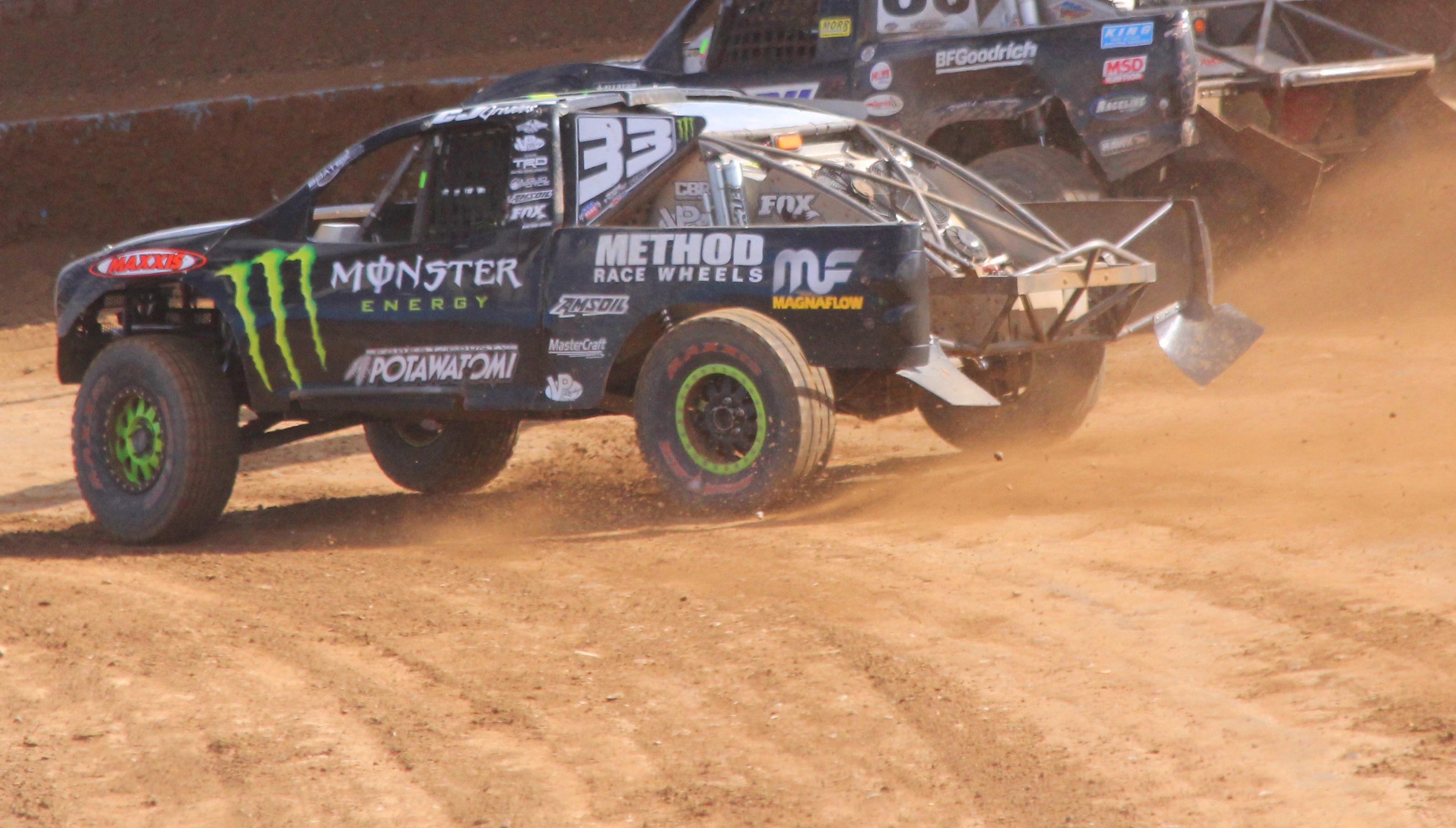 The Pro 2 TORC trophy truck of C.J. Greaves at Crandon International Off-Road Raceway. He ended up winning the AMSOIL Cup in this truck later that day.